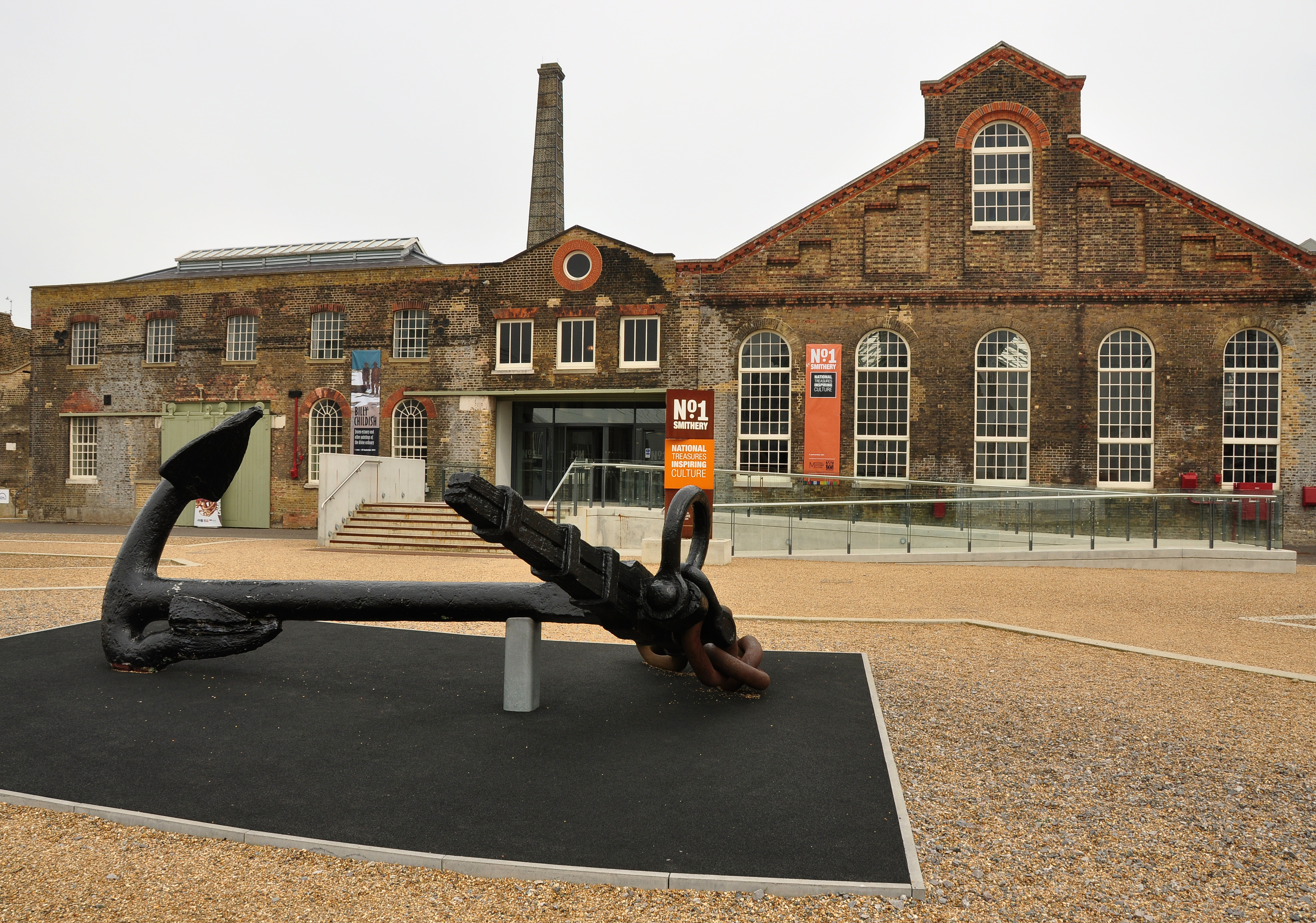 An anchor on display in front of the No 1 Smithery in Chatham Dockyard, Kent.